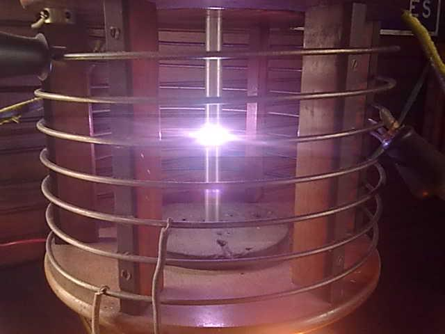 A demonstration of the Massie Wireless Station's spark gap transmitter showing an electrical arc jumping across the spark gap within the tuning coil. There is an audio recording at File:Massie Wireless Station "PJ" Spark Sound.ogg